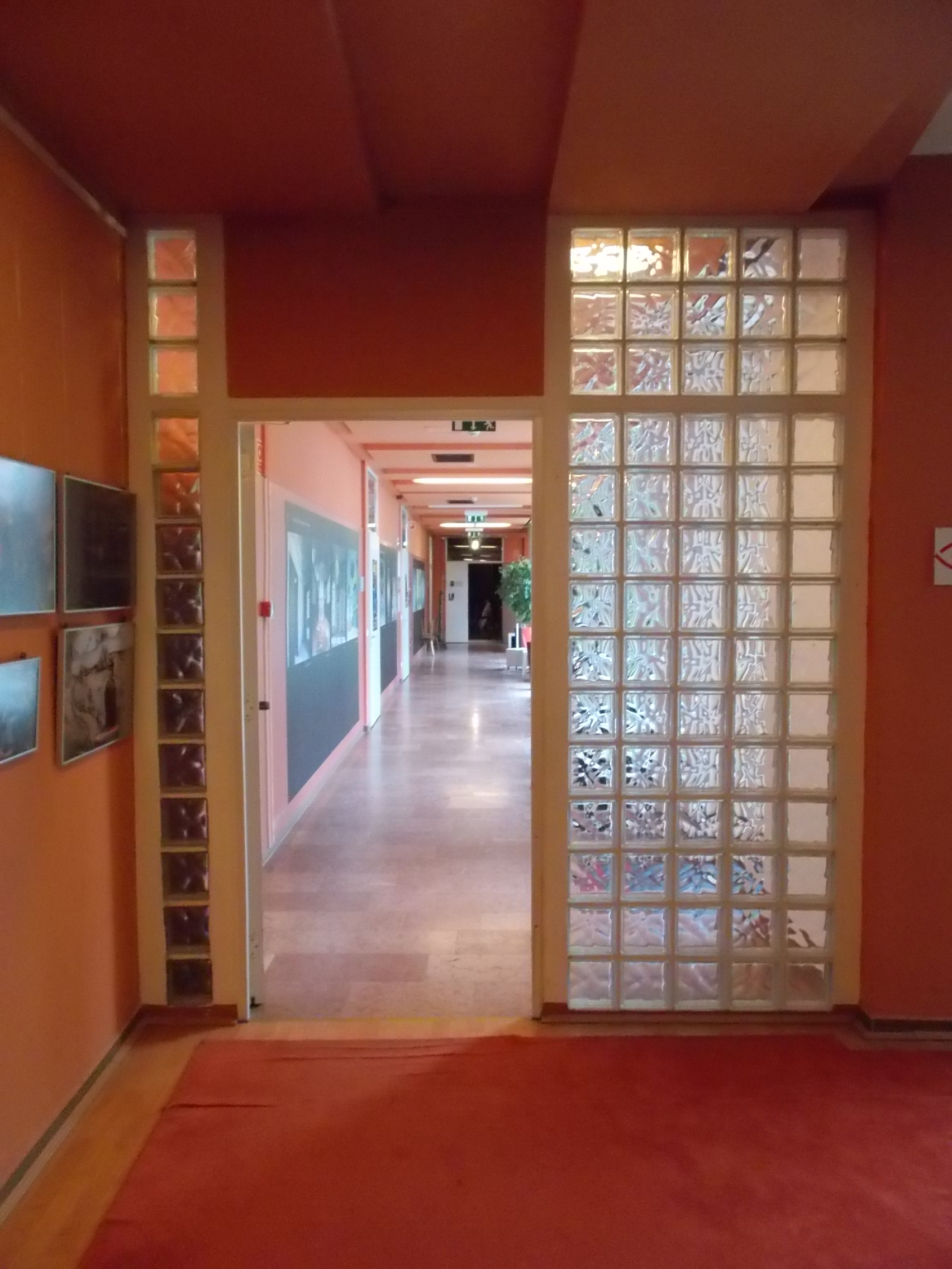 House of Arts in Gödöllő, Pest County, Hungary.